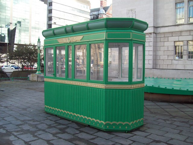 Tunnel Tollbooth This is one of the original Mersey Tunnel tollbooths. It is next to The George's Dock ventilation building in Liverpool.